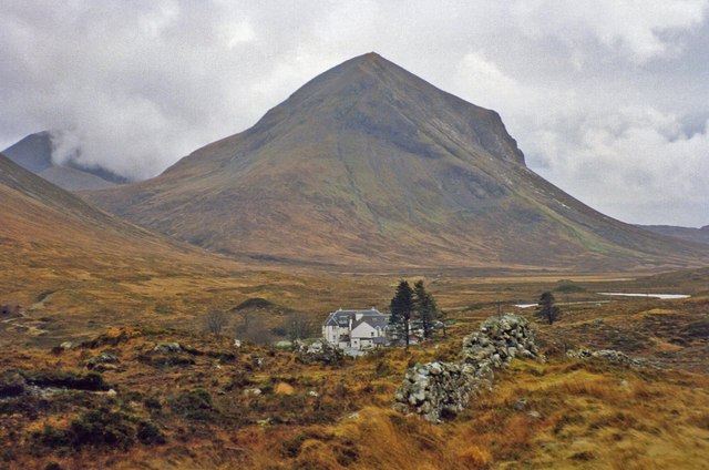 Tumbled-down Wall, Sligachan Looking towards the Sligachan Hotel with the mountain Marsco behind. I think that the hotel has been extended since this was taken.